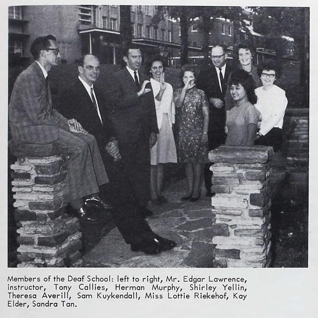 This is a picture taken from a public catalog for the Christian Bible College.